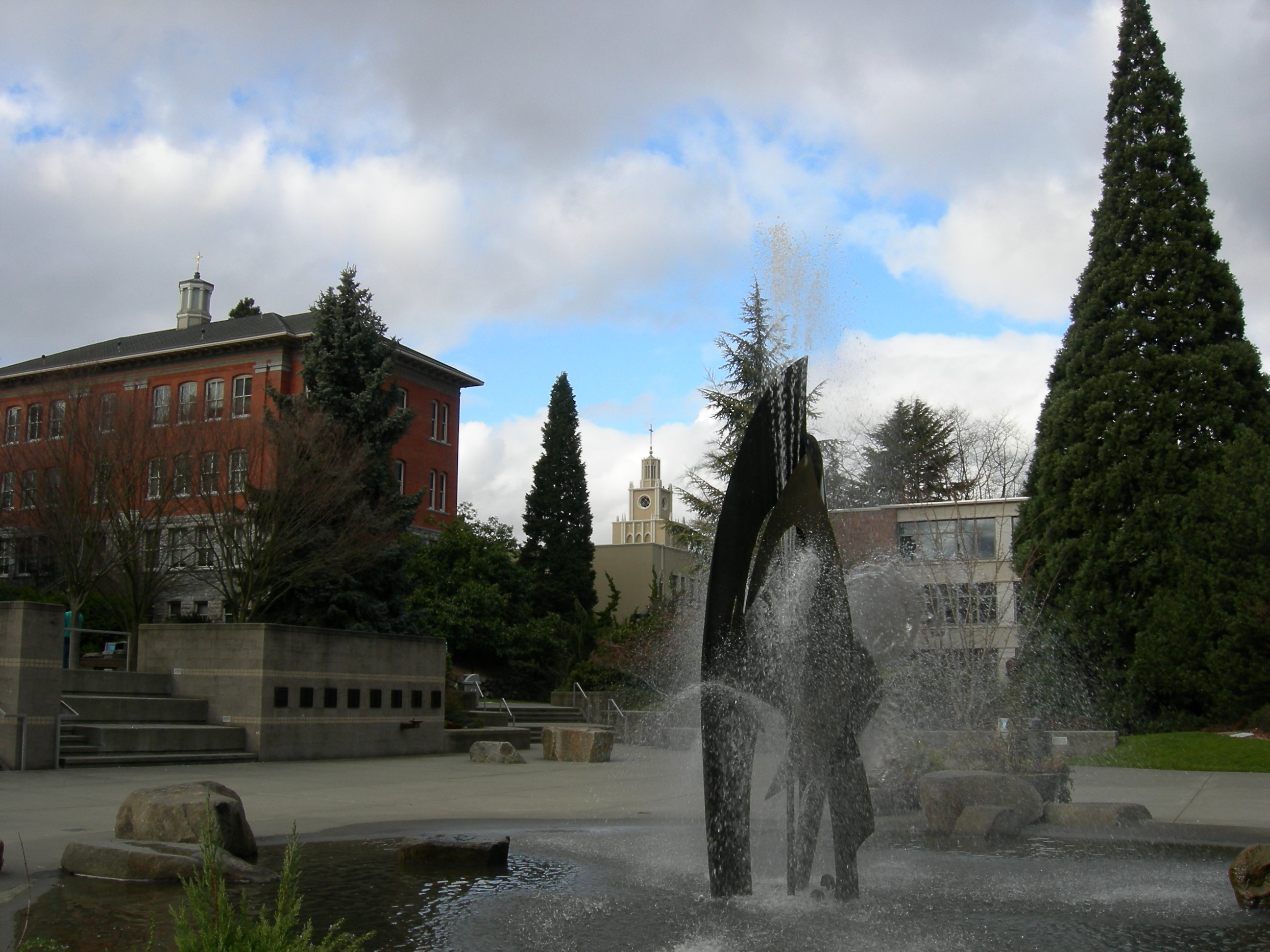 Centennial Fountain, Seattle University. From left to right in the background Garrand Hall (School of Nursing), Administration Building, Piggot Hall (Albers School of Business). The fountain was designed by Seattle artist George Tsutakawa.